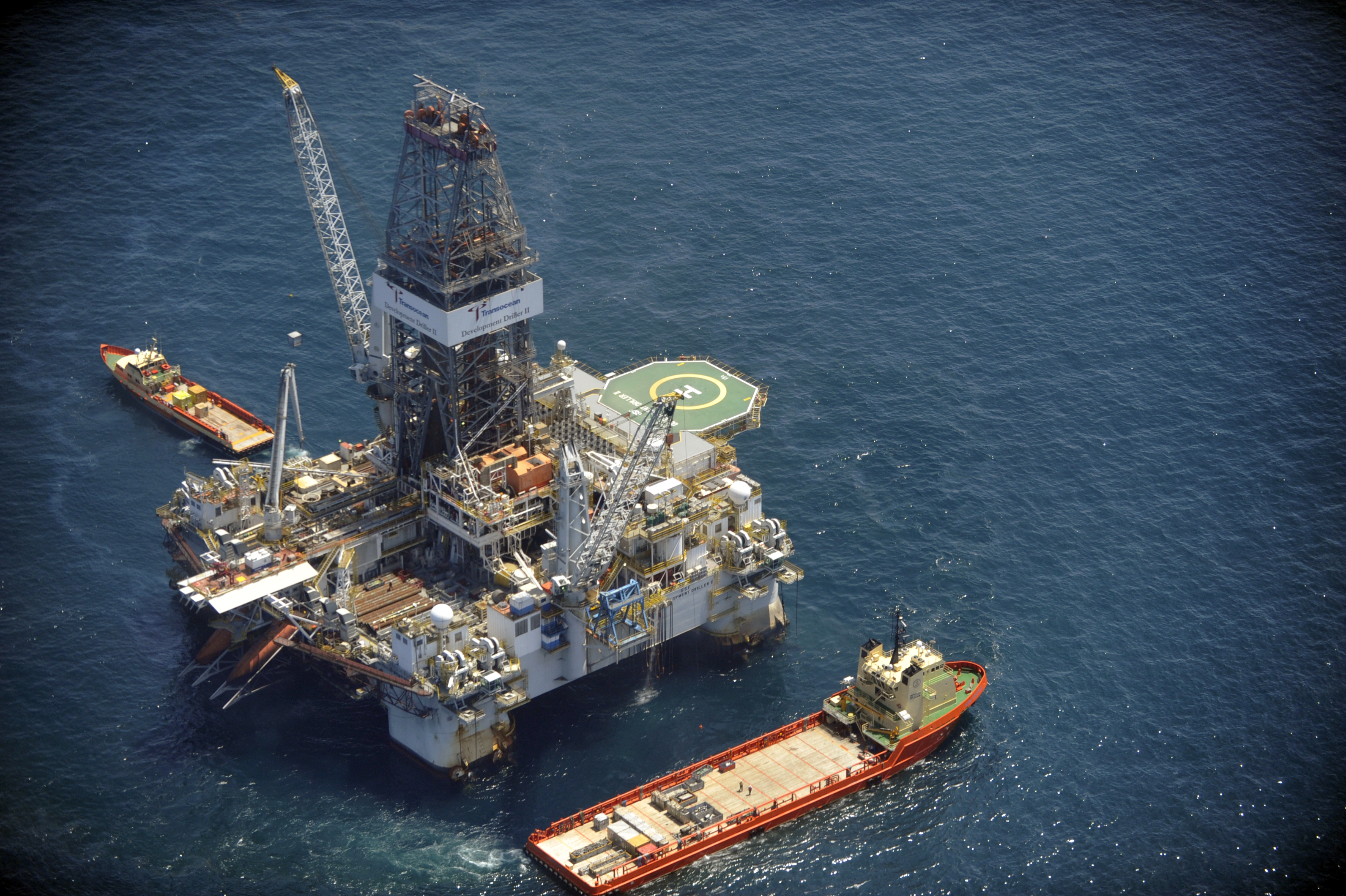 Transocean's Development Driller II continues to dig a relief well in the Gulf of Mexico May 20, 2010. Development Driller II and Development Driller III were brought into the area to drill relief wells in an effort to stop the flow of oil into the water after the Deepwater Horizon drilling rig explosion incident.